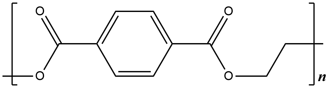 Structure of poly(ethylene terephthalate), PET